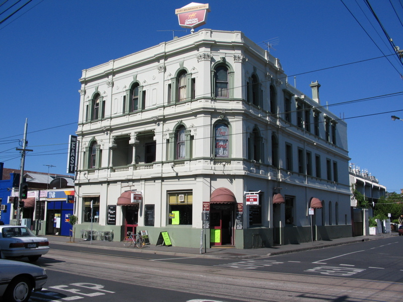 The East Hotel, Brunswick East, Victoria, Australia